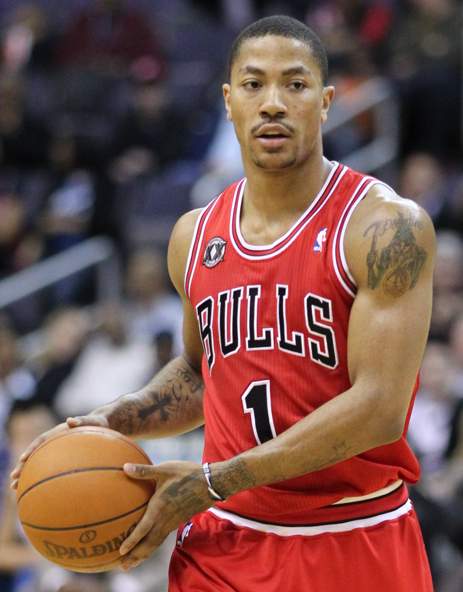 Derrick Rose #1 of the Chicago Bulls at the Verizon Center on February 28, 2011 in Washington, DC.